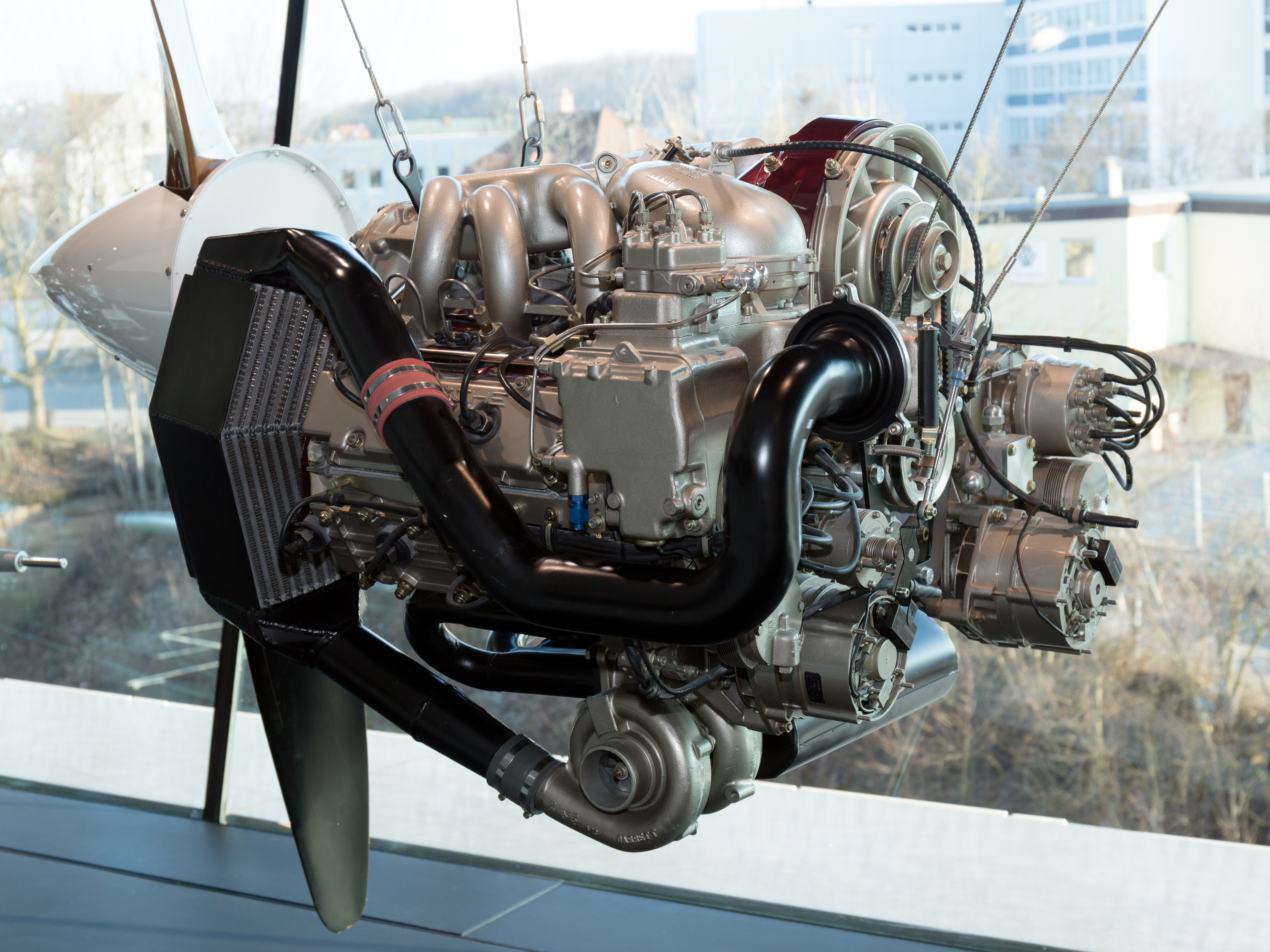 1985 Porsche PFM 3200 aircraft engine